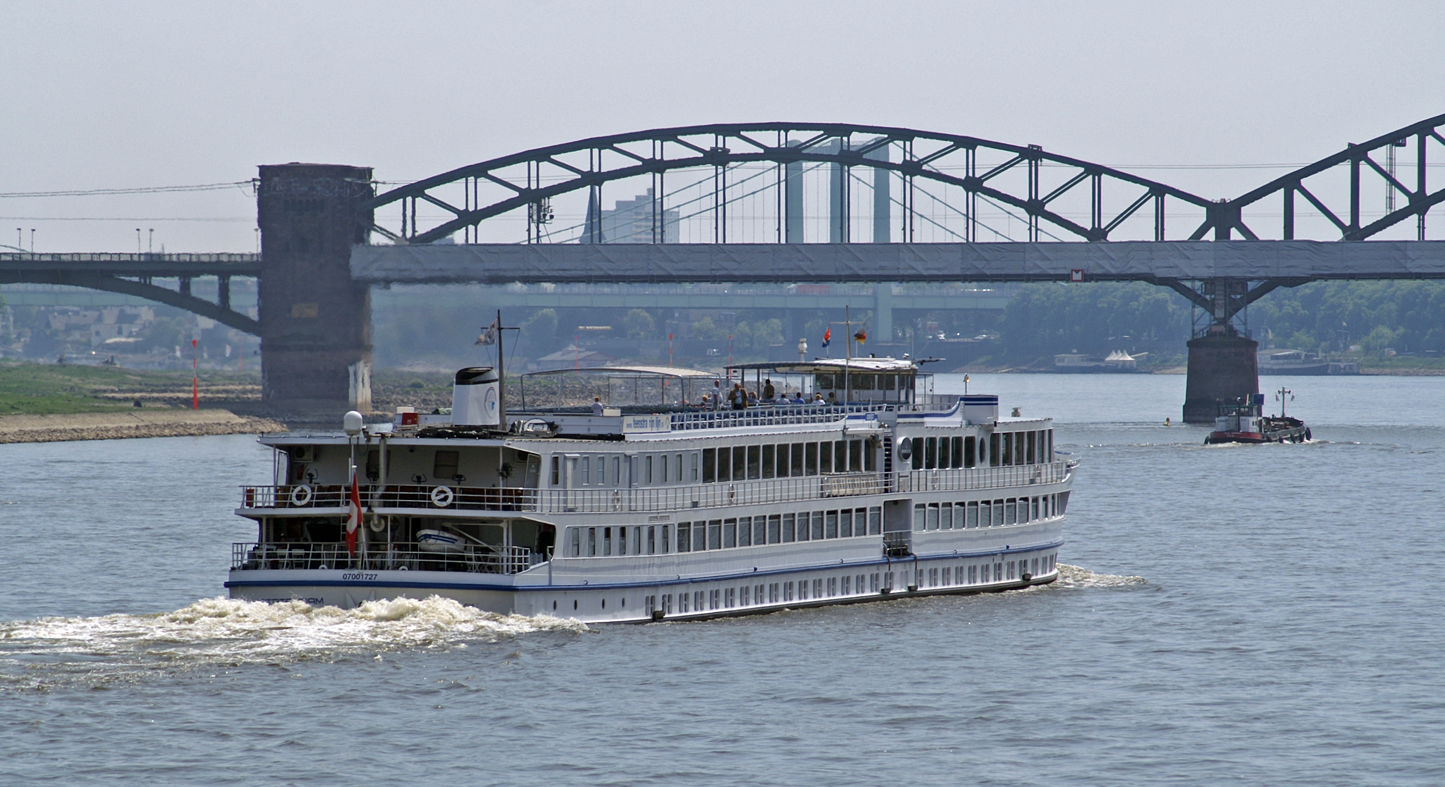 River cruise ship Statendam on Tour in cologne.